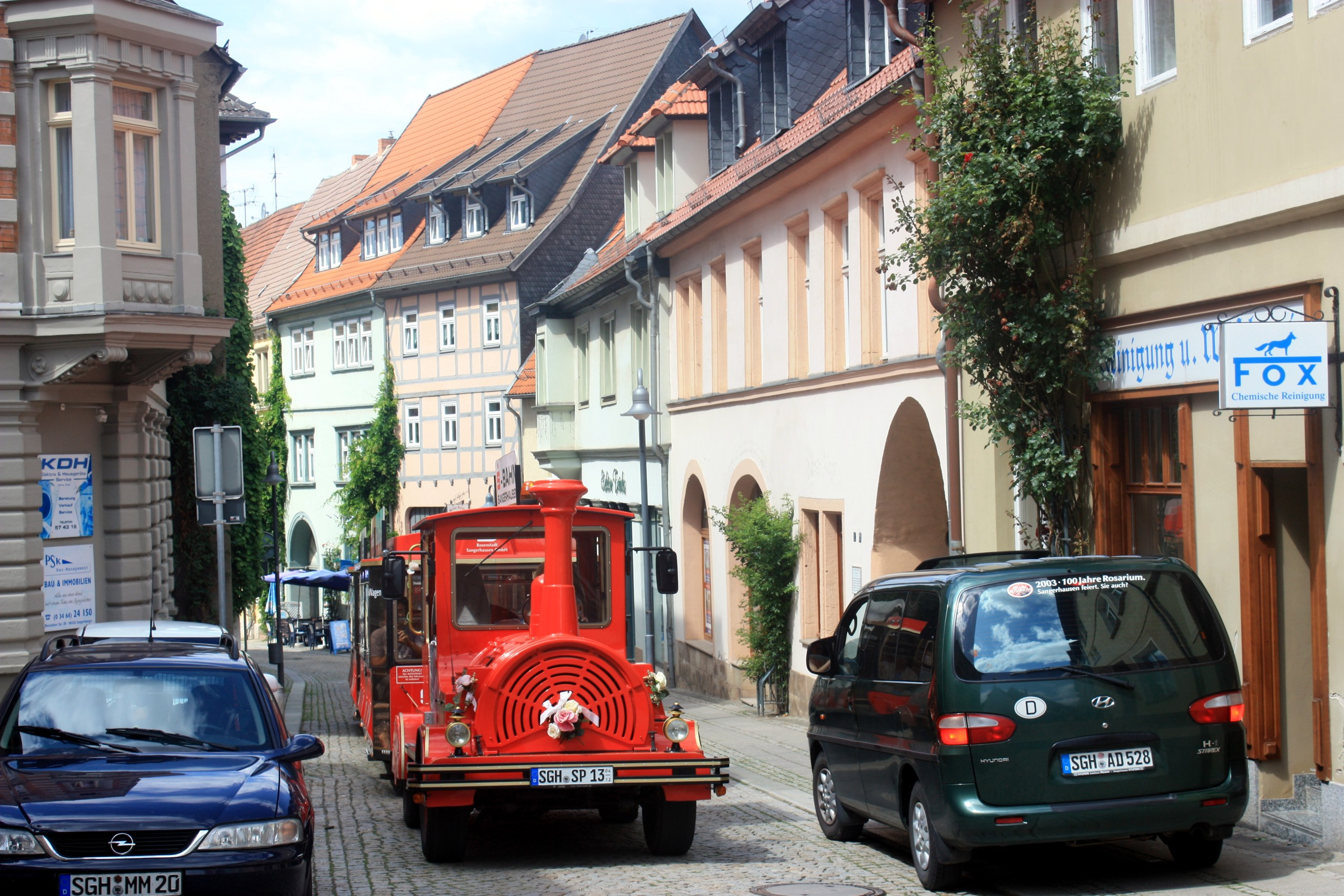 Sangerhausen, by train through the town